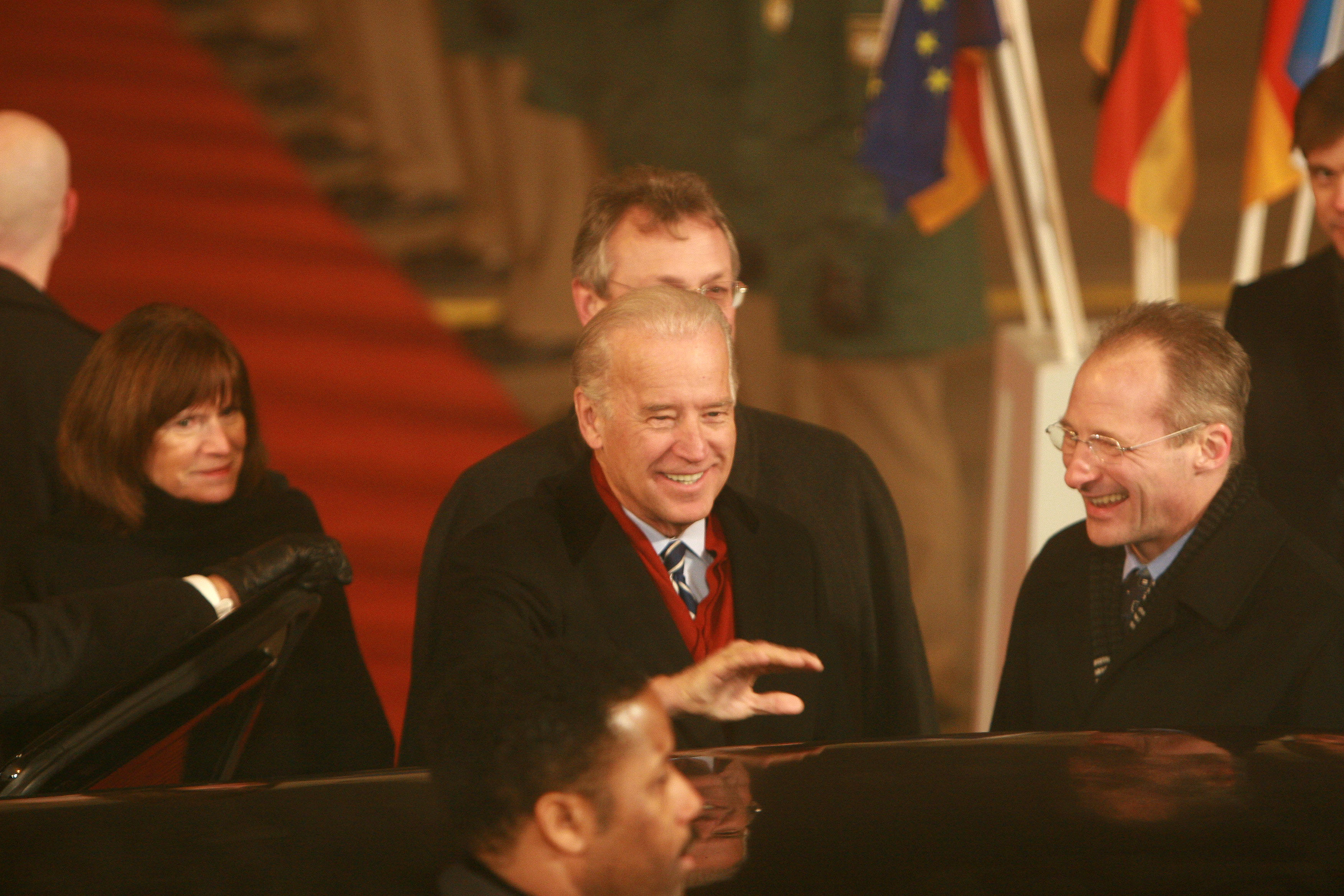 45th Munich Security Conference 2009: Joseph R. Biden (mi), Vice President, USA, on his arrival in Munich.